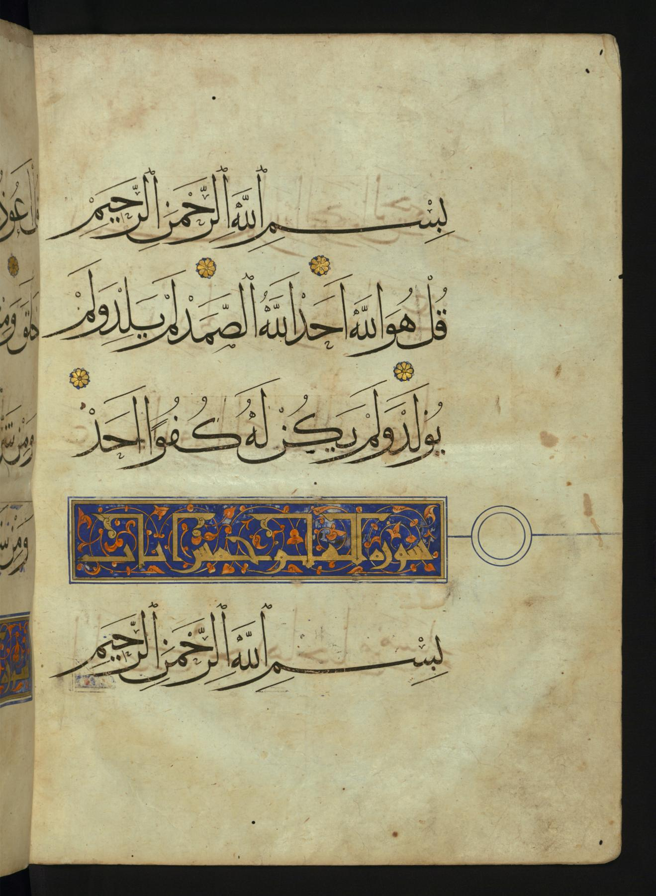 This text page from Walters manuscript W.562 has lines of vocalized Muhaqqaq script with an illuminated chapter heading for chapter 113 (Surat al-falaq). The chapter heading is written in New Abbasid (Broken Cursive) style in gold ink on a blue ground with red arabesques.